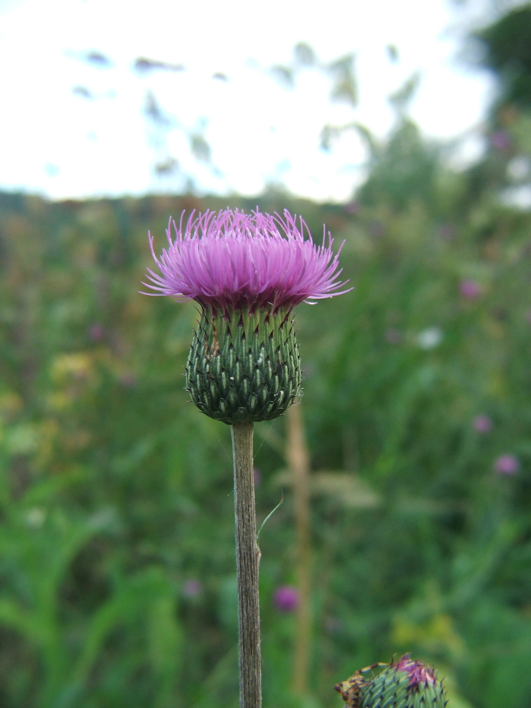 Inflorescence of Cirsium canum